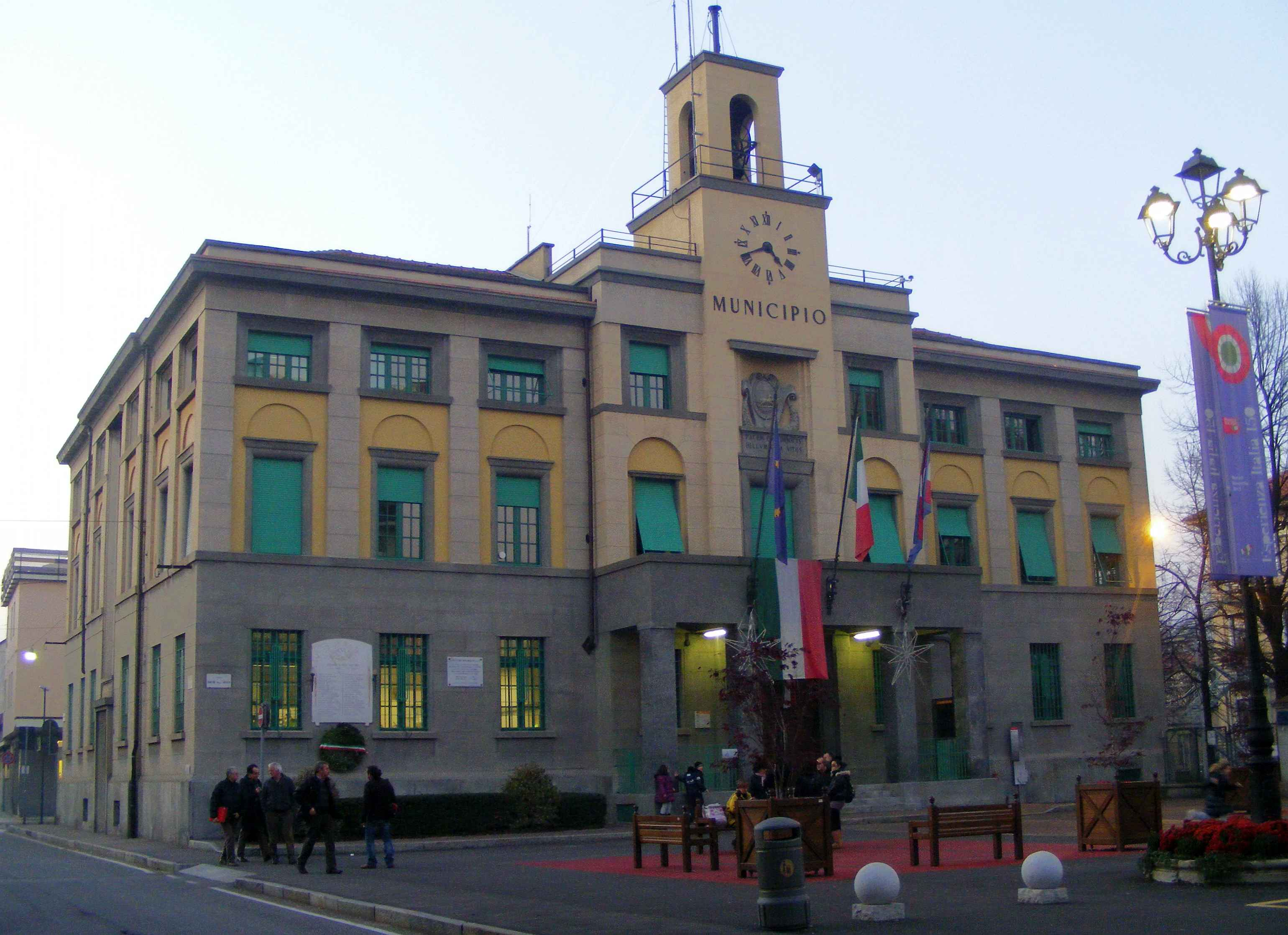 Venaria Reale (TO, Italy): town hall